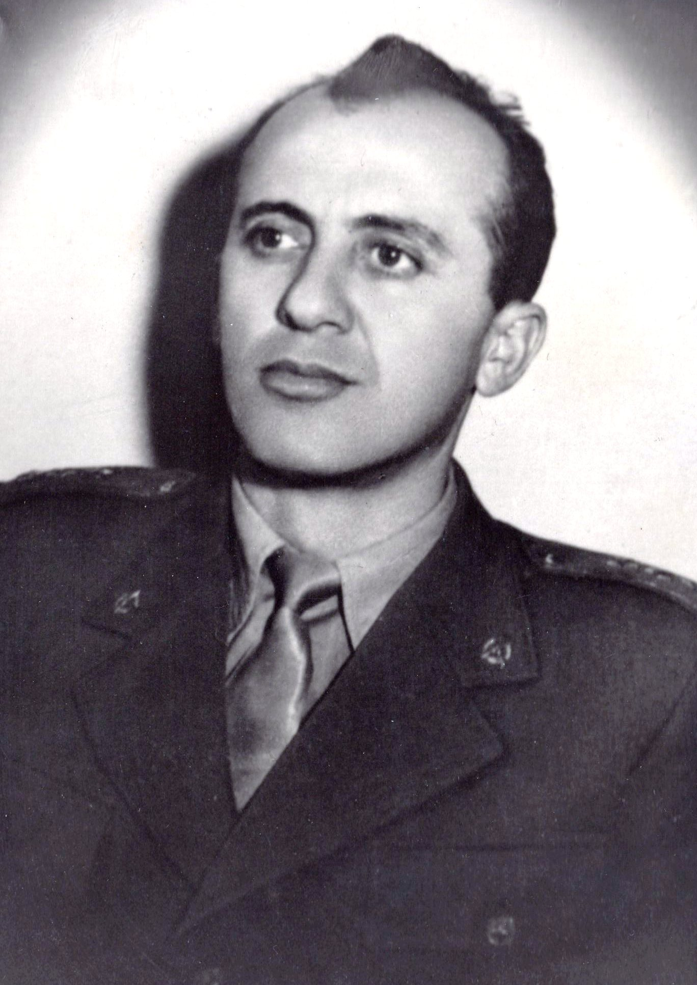 Vasko Karangelevski (1921-1977) People's Hero of Yugoslavia from the Republic of Macedonia This media file is produced by Wikipedian in Residence in Category:Wikipedian in Residence at DARM in 2016.